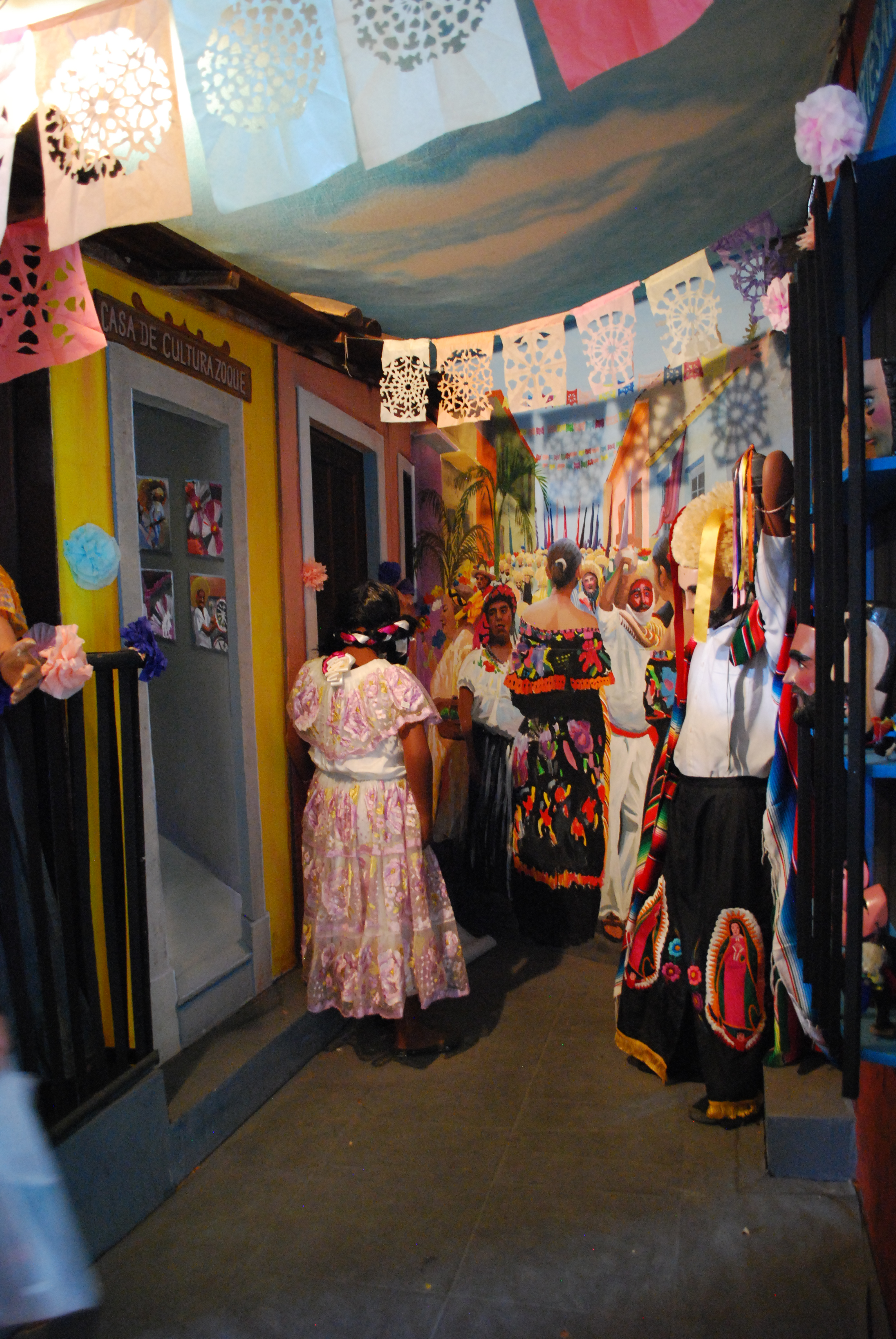 Zoque display at the Museo de las Culturas Populares de Chiapas in San Cristobal de las Casas, Chiapas, Mexico